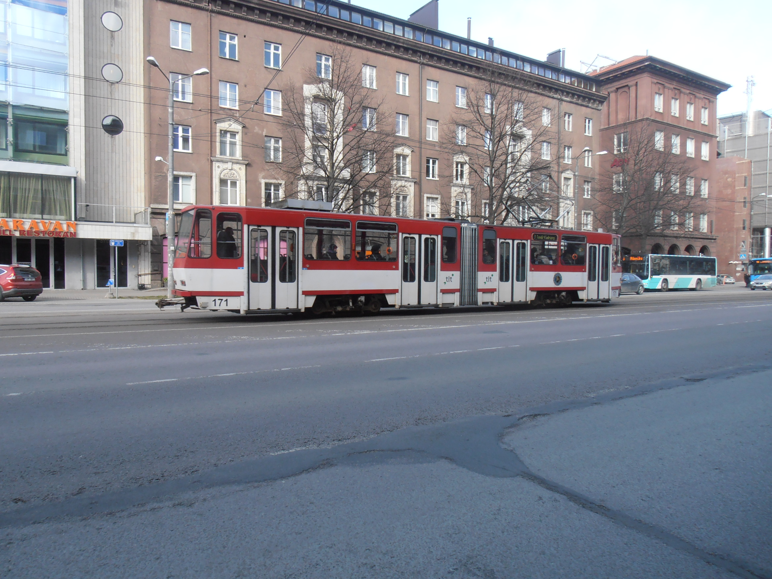 Tram 171 in front of Narva maantee 9 Building Tallinn 16 April 2015